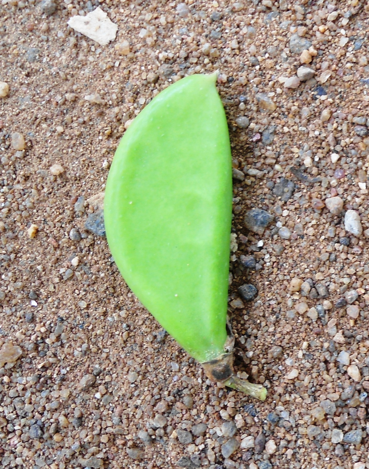 Fallen Raw fruit of Pongamia Pinnata at Kambalakonda Eco Park in Visakhapatnam